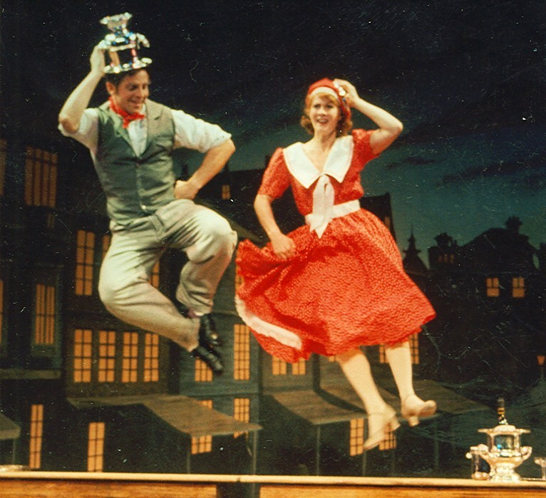 The musical - Me and My Girl, choreography by Stas' Kmiec' - taken during a dress rehearsal by choreographer Staś Kmieć